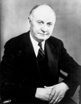 Thomas G. Burch, former U.S. Senator from Virginia.